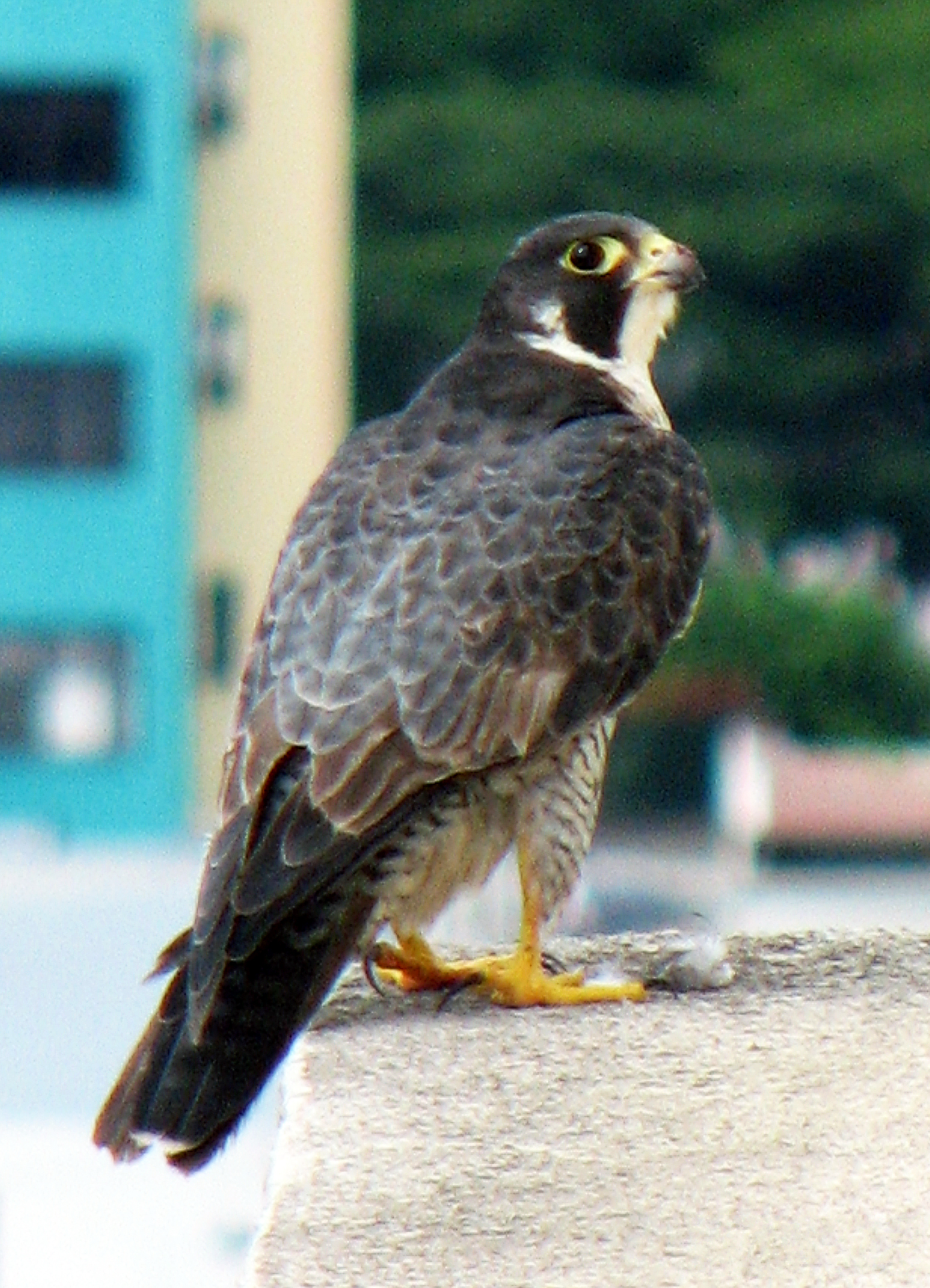 Falco Peregrinus